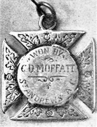 Medal given to St. Andrew's football team players after winning the first Primera División title in Argentina, 1891. This medal was awarded Charles Moffatt.